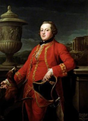 Portrait of Edward Howard (1743/4-1767[1]), son of Philip Howard (1687/8-1749/50[2]) of Buckenham in Norfolk (younger brother of Edward Howard, 9th Duke of Norfolk (1686-1777)) by his second wife Henrietta Blount, one of the three daughters and co-heiresses of Edward Blount (d.1726) of Blagdon in the parish of Paignton in Devon. In 1763 (following the death of his half-brother) he became heir presumptive to the dukedom. He was a special favourite of his childless aunt and uncle Mary Blount (sister of Henrietta Blount) and her husband the 9th Duke, both blood relatives, who expected him to inherit the dukedom and considered him as their own child.[3] The couple were devastated when he died in 1767 aged 23 due to a fever he caught while playing tennis not fully recovered from measles. Such portraits by Pompeo Batoni were commonly commissioned by young English gentlemen whilst in Rome on the Grand Tour.